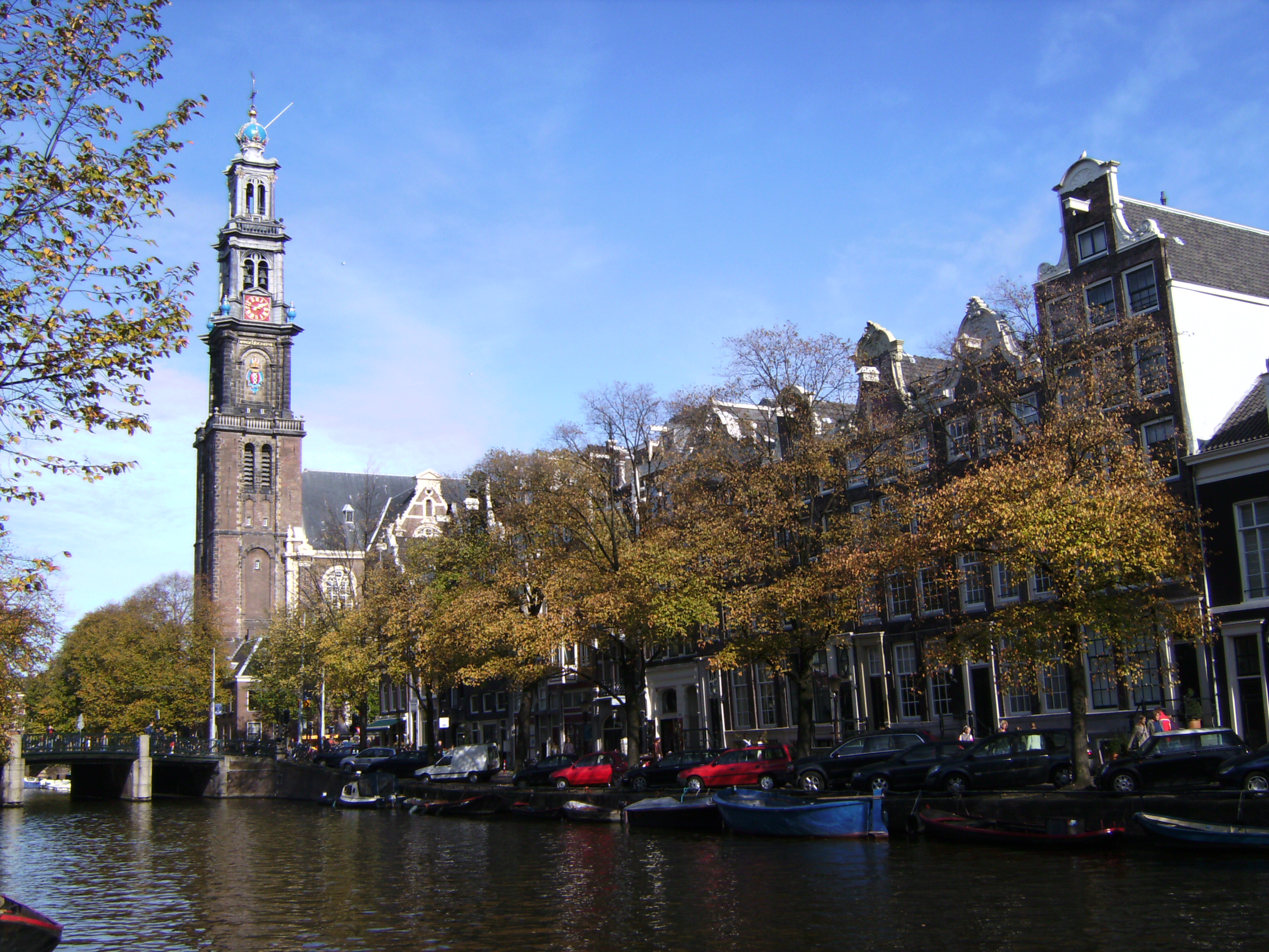 Amsterdam, Westerkerk